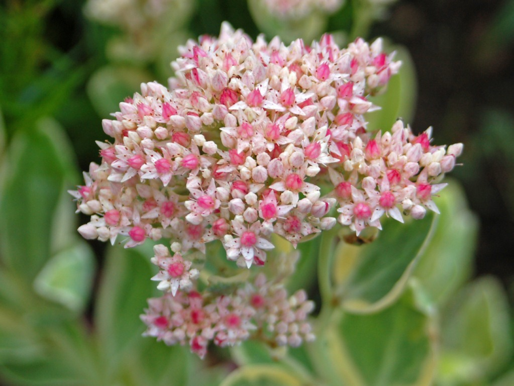 Sedum erythrostictum - Botanika Zahrada Fata Morgana Praha